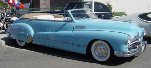 1947 Buick Roadmaster Series 70 Model 76C 2-door Convertible